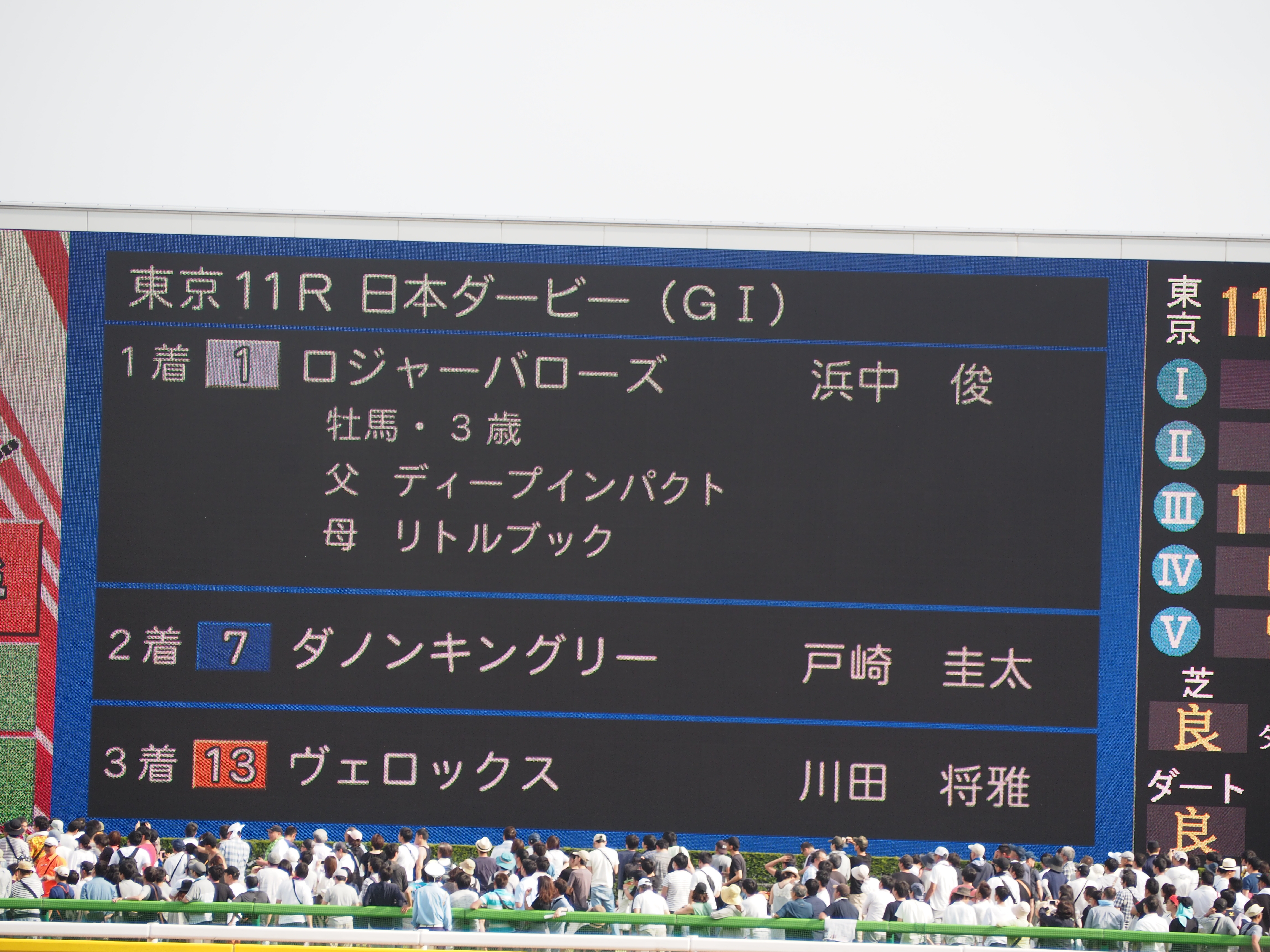 Derby winner roger barows and suguru hamanaka / 86th Tokyo Yushun Japanese Derby 2019 日本ダービー